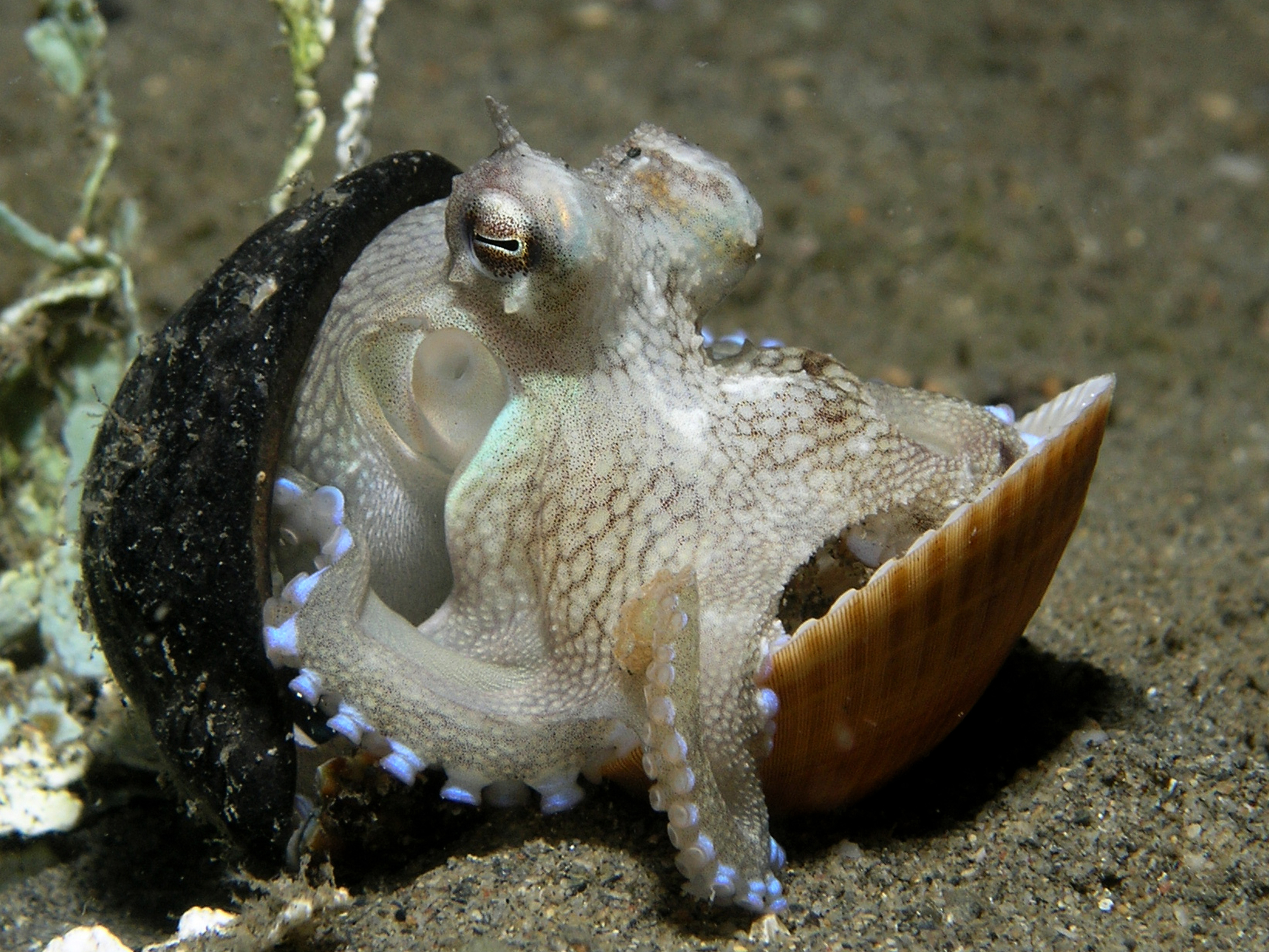 Octopus marginatus hiding between two shells from East Timor. This small octopus of no more than 4-5 cm in diameter was observed on a night dive, using one nut shell and one clam shell to hide between. When the octopus felt there was no threat, it came out of the shells and using the inner parts of its tentacles, proceeded to carry the shells while pulling itself along with the outer tips of the same tentacles. Sensing any threat, the octopus clamped itself shut between the shells with amazing speed.